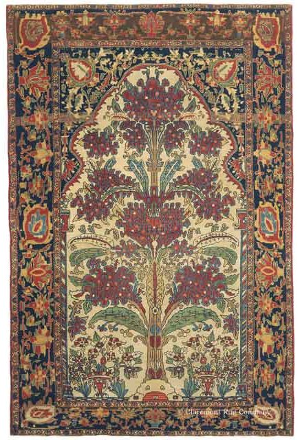 Ferahan Sarouk carpet, 4 ft 4 in x 6 ft 1 in, 2nd quarter of 19th century. 'Tree of Life' or 'World Tree'